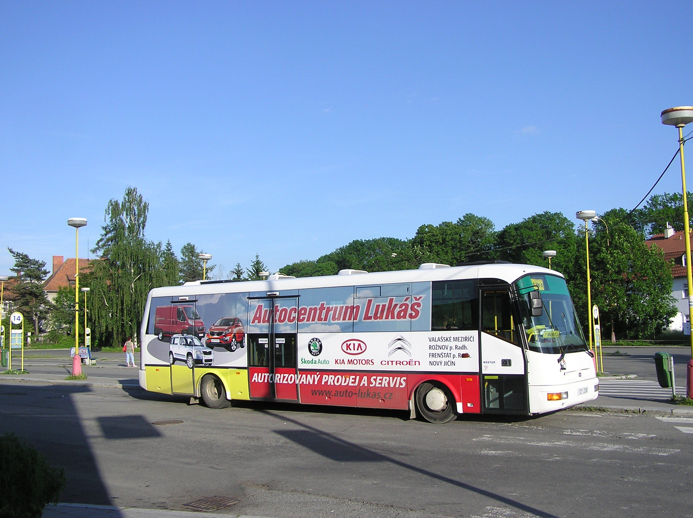 Bus SOR B 10,5 in Valašské Meziříčí, Zlín Region, Czech Republic